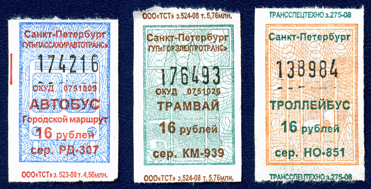 Saint Petersburg bus, tram and trolleybus tickets. From right to left: bus, tram and trolleybus tickets.